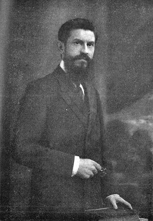 Frans Van Cauwelaert, Belgian Flemish politician (20th Century).